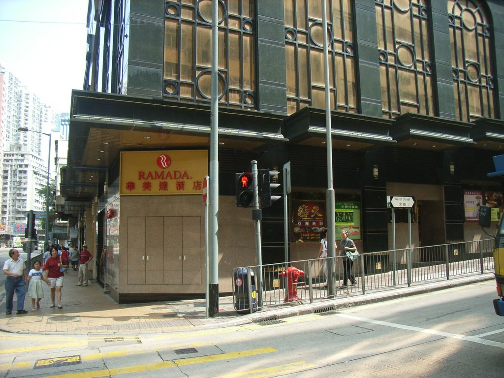 A road in Hong Kong Island. by User:Sammi Tunkarly